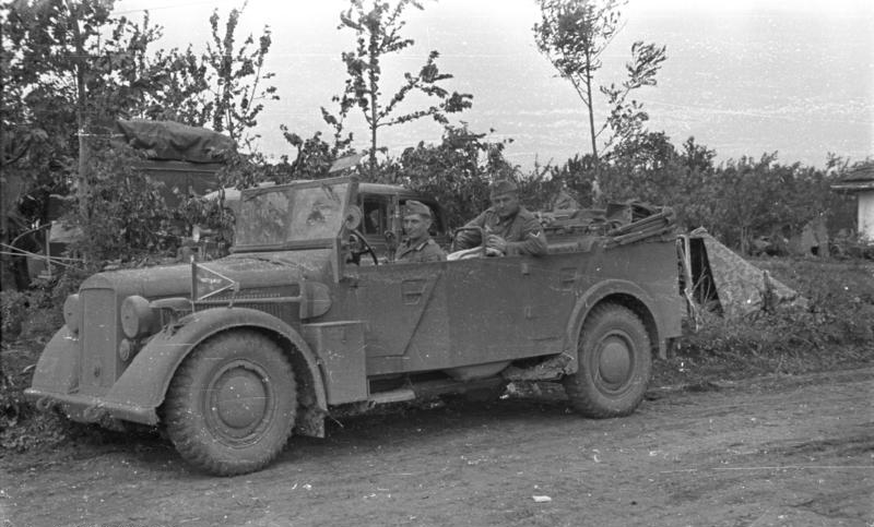 German m.gl.Einheits-PKW (most common model was Horch)